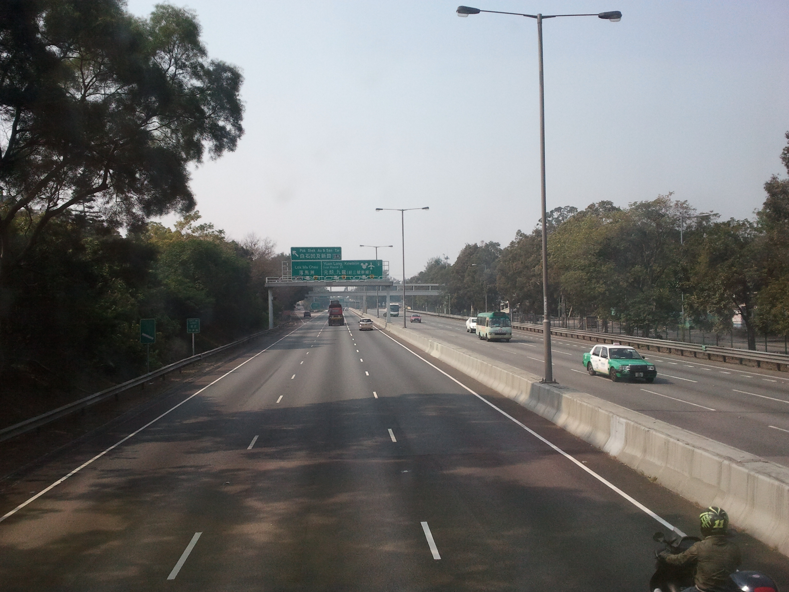 Fanling Highway (Kwu Tung section)